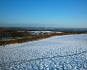 Totley Moor in snow, Bank Holiday 2005. Author: Gregory Deryckère / Captain Scarlet.